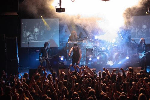 AXXIS during their 4 hour gig in Bochum (December 13 2009)